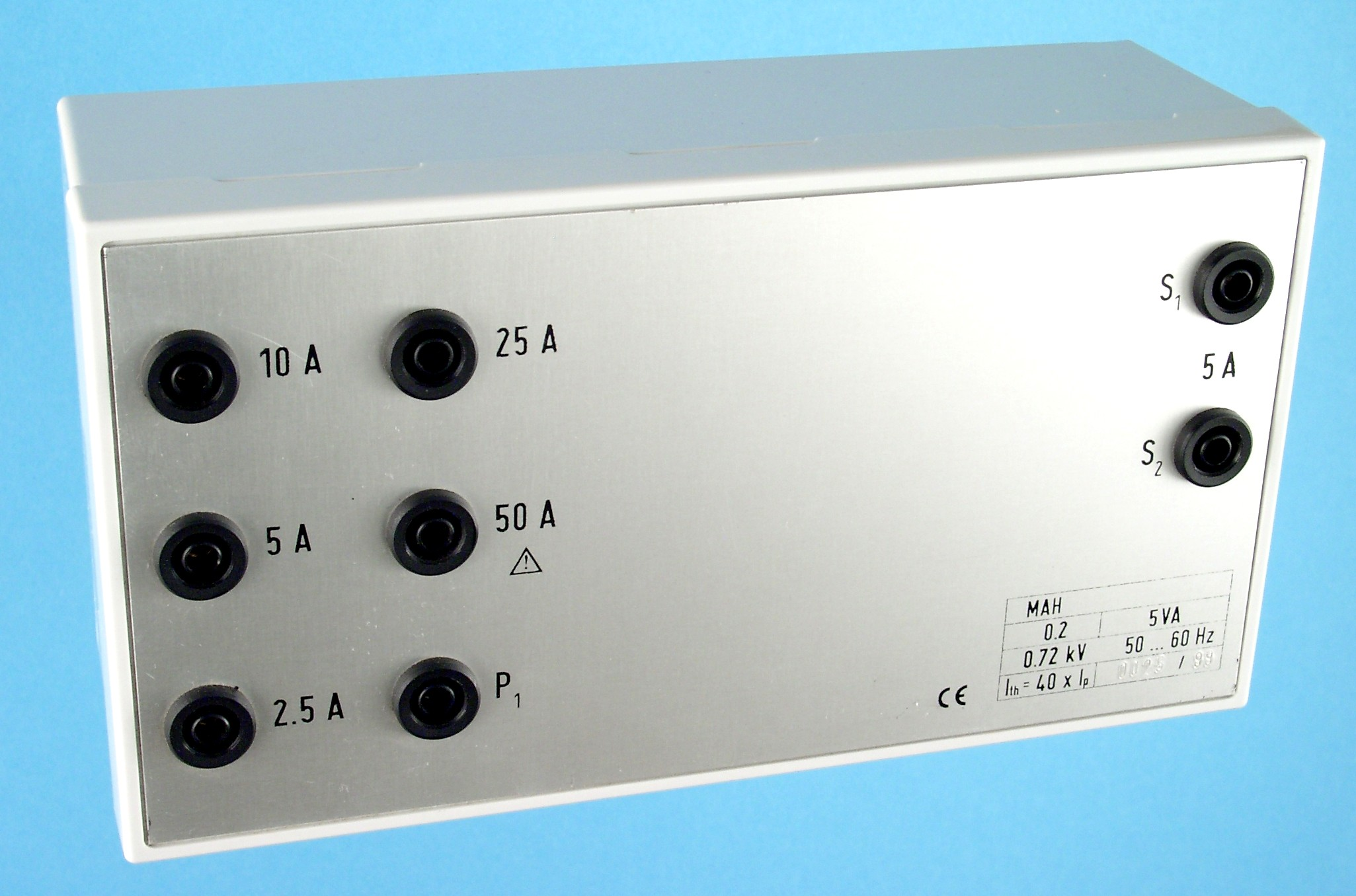 Portable current transformer